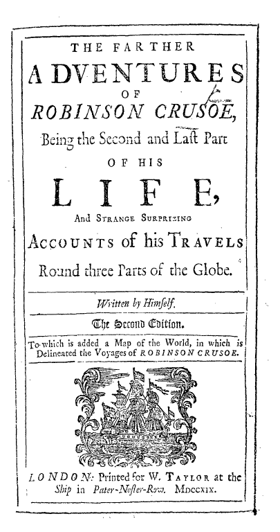 Defoe, Danile. Farther Adventures of Robinson Crusoe. Eighteenth Century Collections Online. Author has been dead for over 100 years.